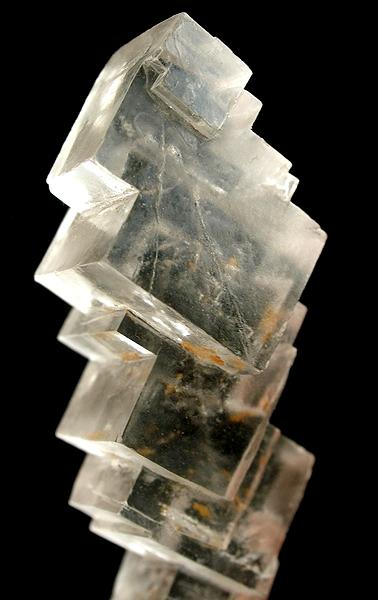 Halite Locality: Stassfurt, Stassfurt Potash deposit, Saxony-Anhalt, Germany (Locality at ) Size: 6.7 x 1.9 x 1.7 cm. A halite specimen of water-clear, stacked echelon and offset cubes. From the famed salt deposits at Stassfurt, Saxony-Anhalt, Germany.